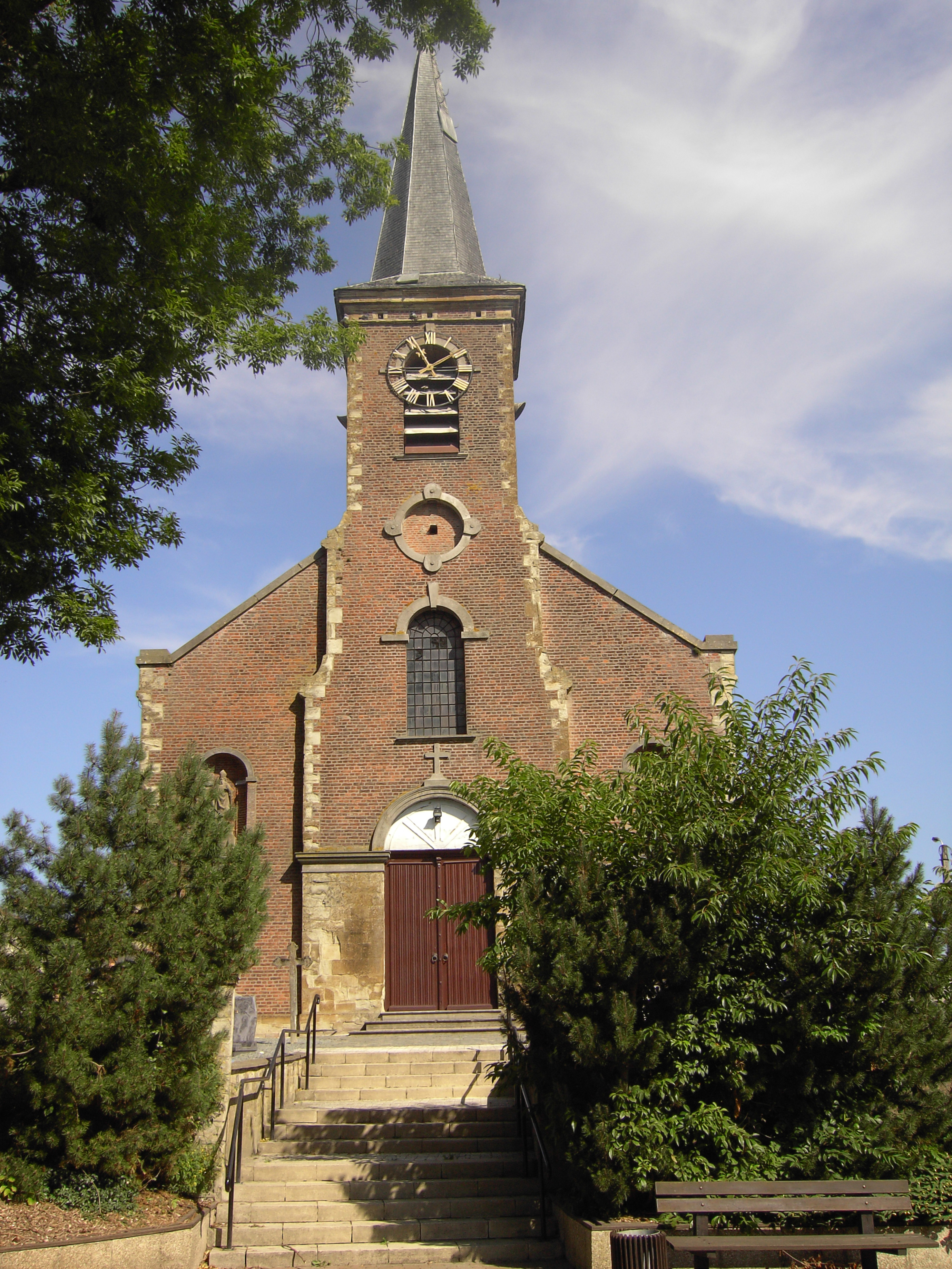 Church of Saint Amandus in WaarbekeWaarbeke, Geraardsbergen, East Flanders, Belgium.